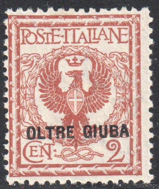 Italy Oltre Giuba (protectorate Italian Jubaland) 2c, mint. catalogue: Sc. 2